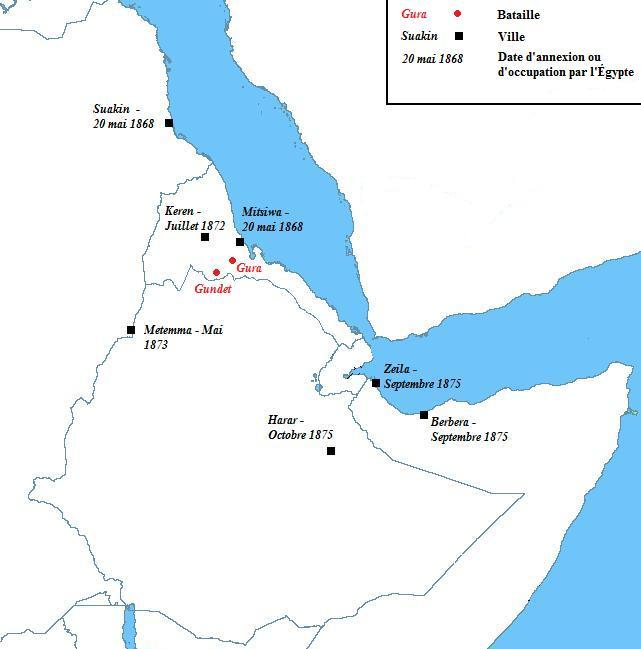 Egypt - Abyssinia War 1875 - 1876